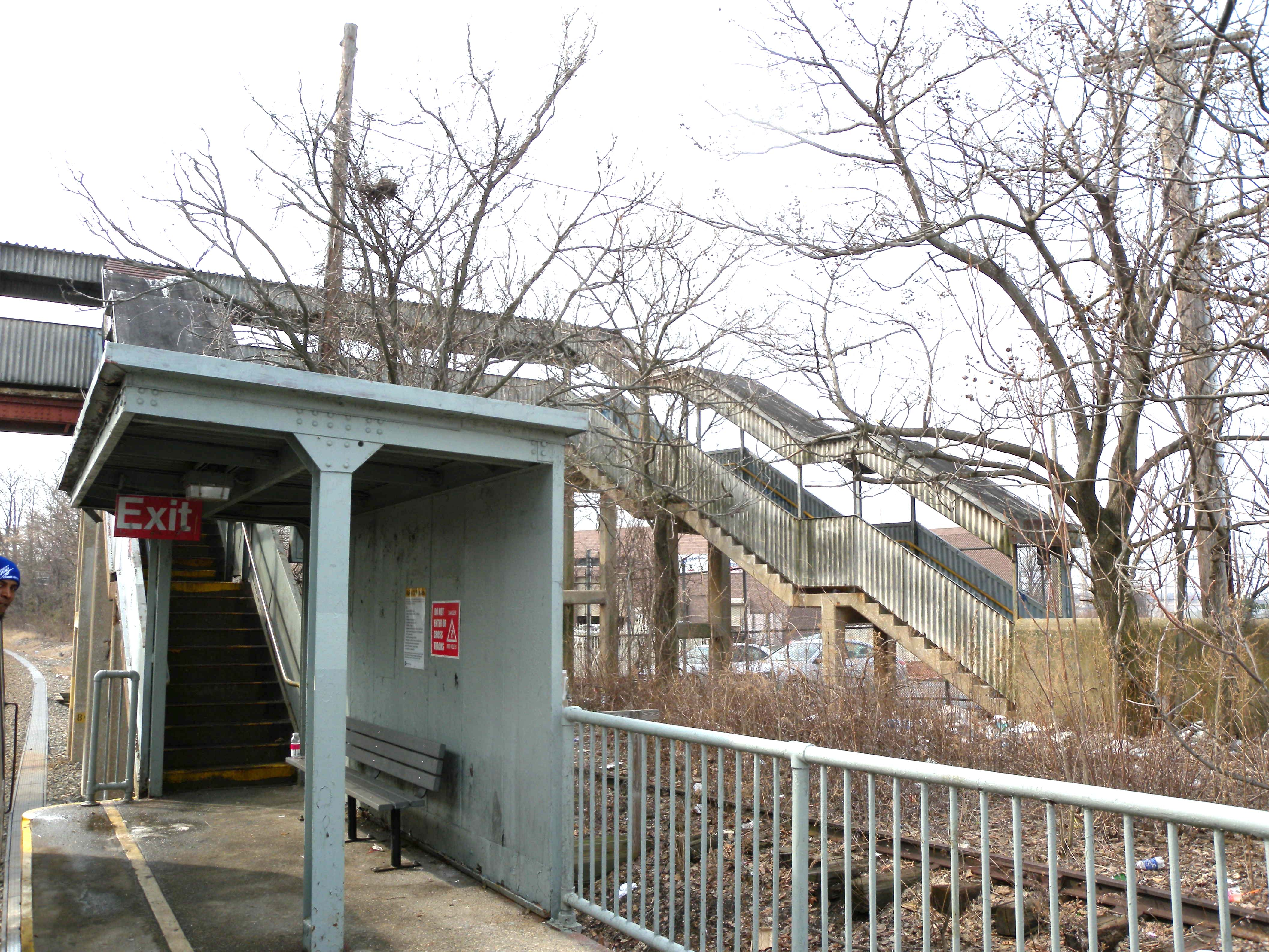 Looking west at southbound platform of Nassau (Staten Island Railway station) on a cloudy afternoon.